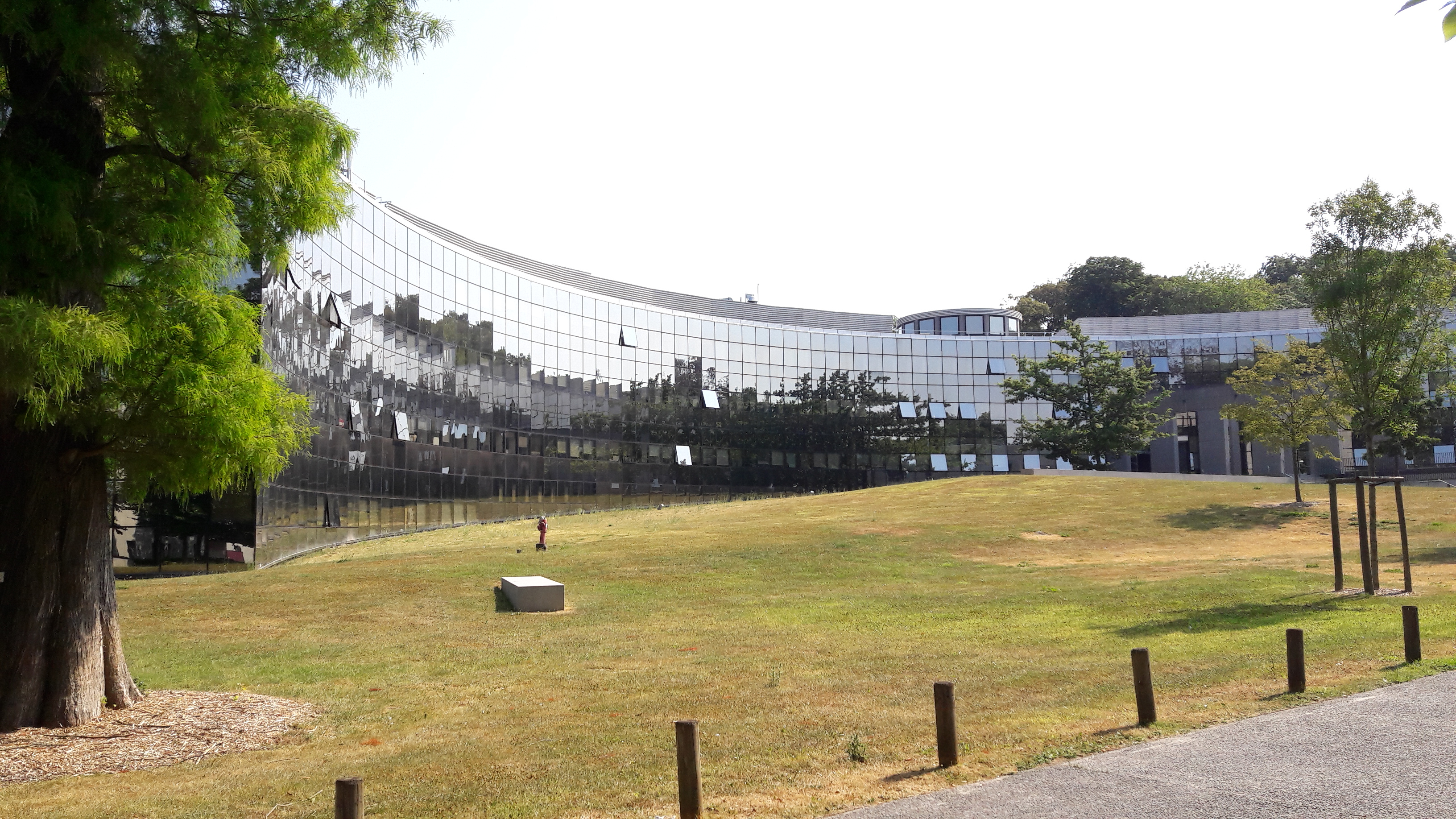 Edhec Business School Lille campus